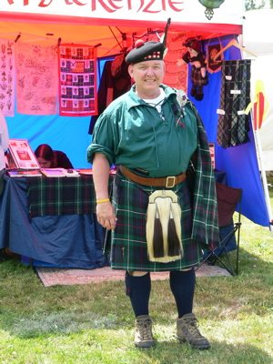 Clan MacKenzie tent at the 2005 Tacoma Highland Games showing the eclectic style of modern Highland attire.